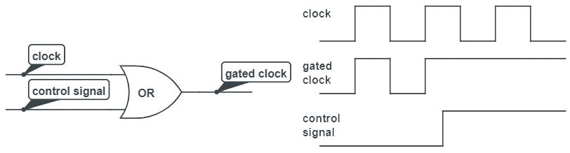 Clock gate circle, the clock is locked on high state